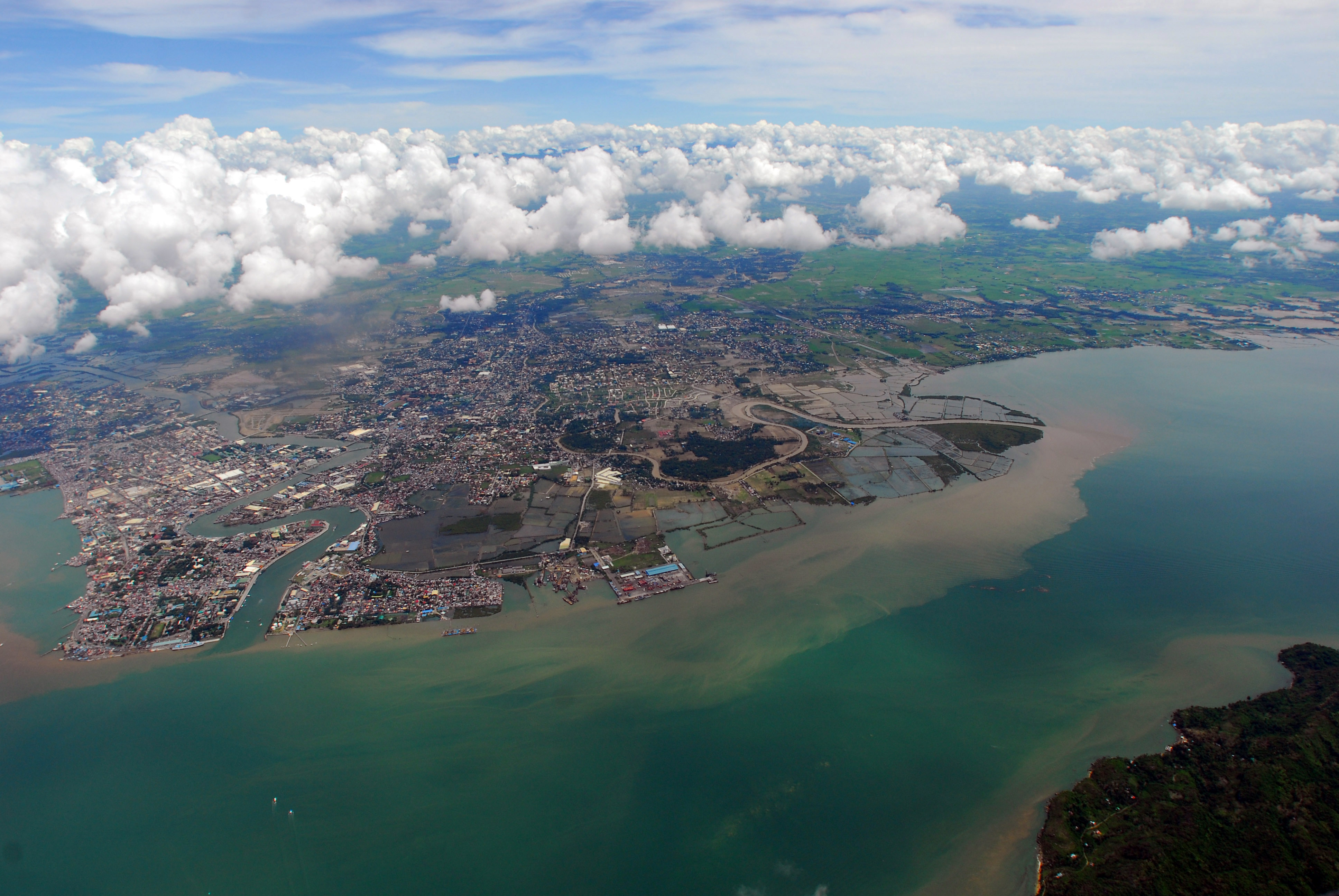 The coast of Panay Island in the Philippines was hit hard by Typhoon Fengshen and is receiving assistance from the aircraft carrier USS Ronald Reagan (CVN 76) and other ships in the Ronald Reagan Carrier Strike Group.